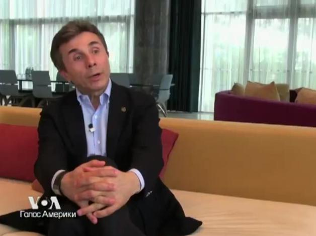 Bidzina Ivanishvili